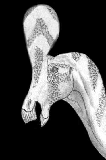 This is a life reconstruction of the Prieto-Marquez and Wagner reconstruction of the head of Tsintaosaurus spinorhinus. The illustration is much older than the paper, and some details differ slightly (for example, the rostrum/ crest angle is slightly shallower than in the paper), but it should suffice for a general orientation as to the morphology of the head and crest as reconstructed.